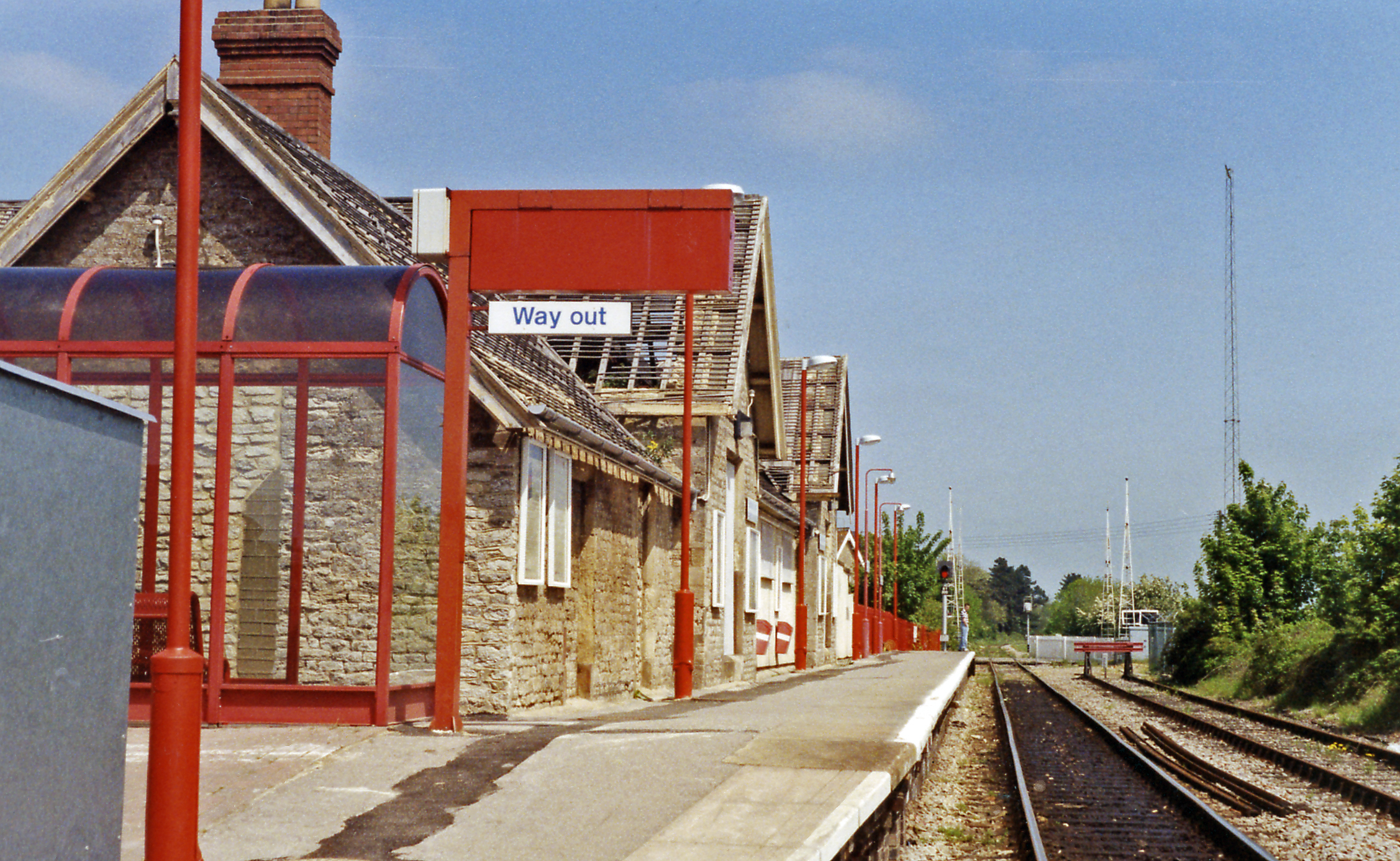 Bicester Town station, 1992. View NE, towards Bletchley: ex-LNWR Cambridge - Bedford - Bletchley - Oxford line. Oxford - Bletchley and Bedford - Cambridge were closed entirely from 1/1/68, but the line from Oxford was reopened from 9/5/87. The rest of this useful cross-country route, which should never have been abandoned in the first place, will undoubtedly be restored soon.